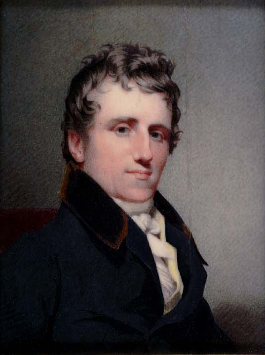 John Church Hamilton (1792-1882) was the fourth son of Major General Alexander Hamilton and Elizabeth Schuyler Hamilton. When he was twelve, his father was killed in the now legendary duel with presidential candidate Aaron Burr. John Hamilton graduated from Columbia College in 1809 and served in the United States Army. He was an avid historian, and published many books about his father’s life, including Life of Alexander Hamilton and a seven-volume history of the Republic.